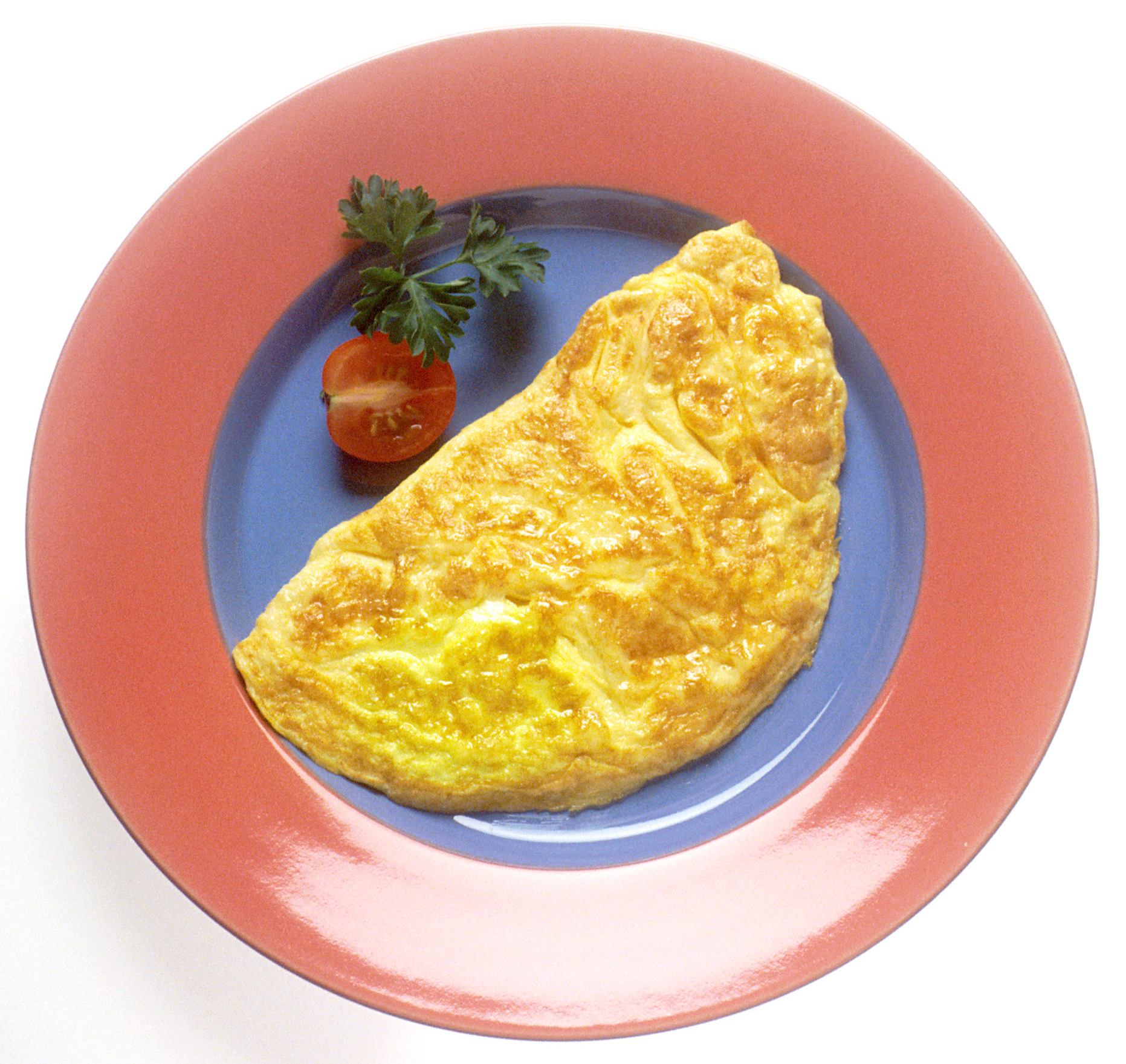 An omelette